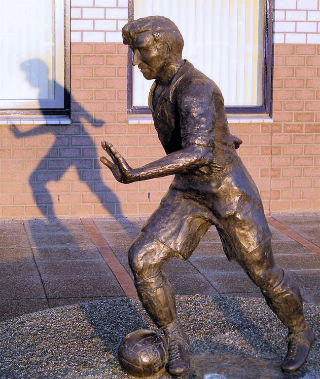 Standbeeld Abe Lenstra bij het stadion in Heerenveen. Statue of the Dutch football player Abe Lenstra, pushing the ball and his own shadow. Made by Frans Ram in 1994.